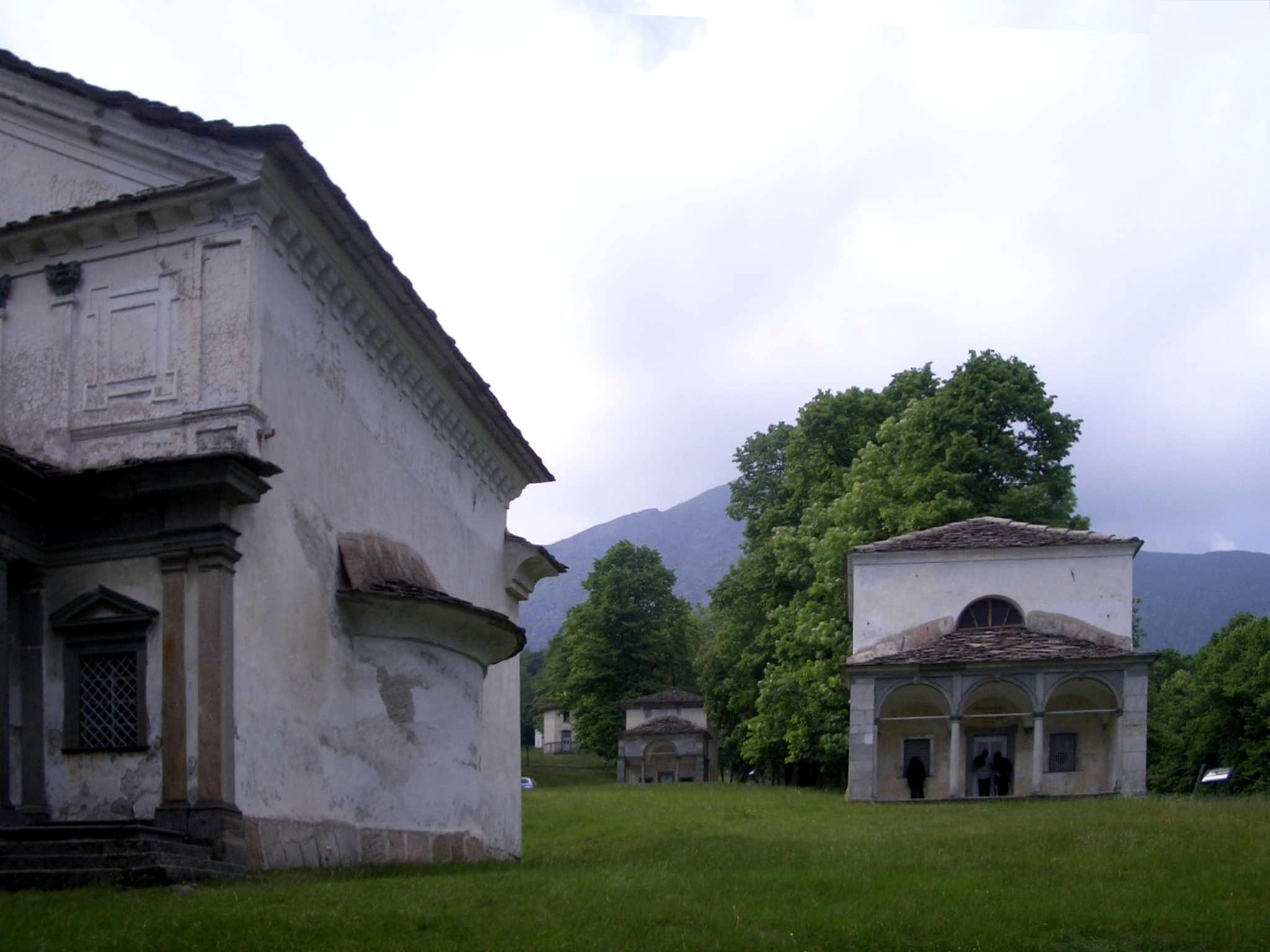 Photo of some chapels at Sacro Monte di Oropa (XVII century), Oropa (Biella), Italy